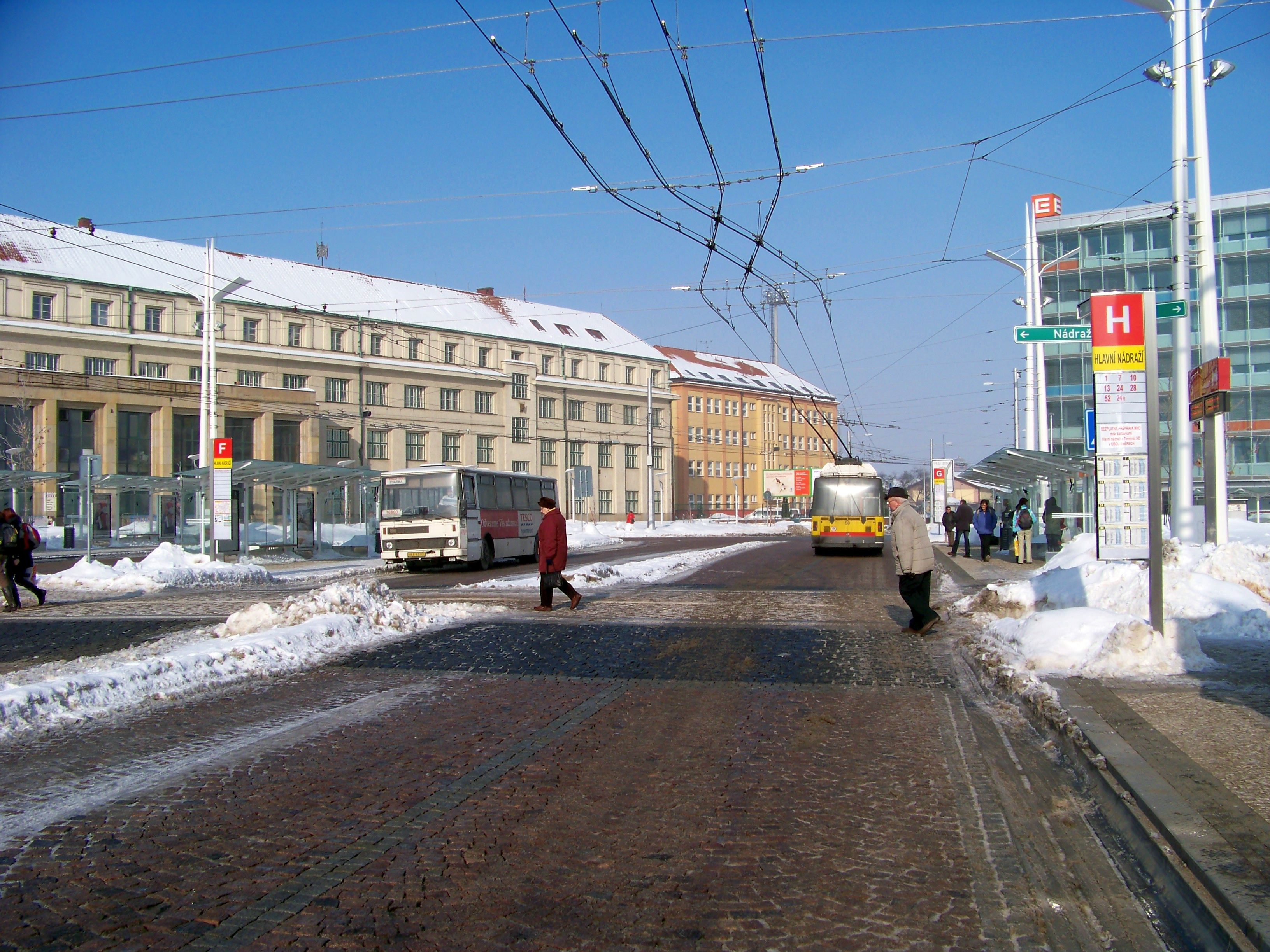 Hradec Králové-Pražské Předměstí, the Czech Republic. Rieger Square, bus terminal in front of the main train station.